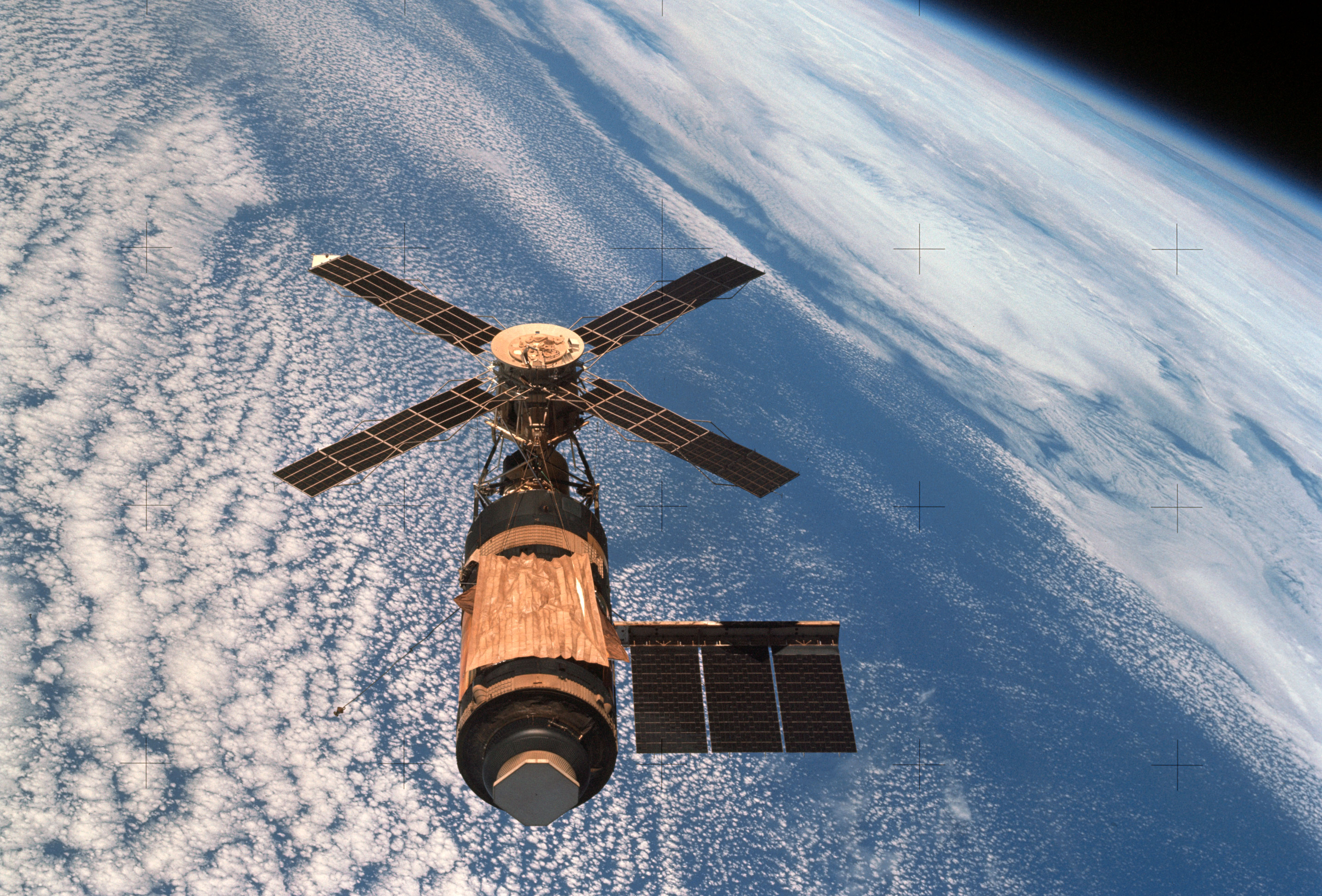 An overhead view of the Skylab Orbital Workshop in Earth orbit as photographed from the Skylab 4 Command and Service Modules (CSM) during the final fly-around by the CSM before returning home. The space station is contrasted against the pale blue Earth.